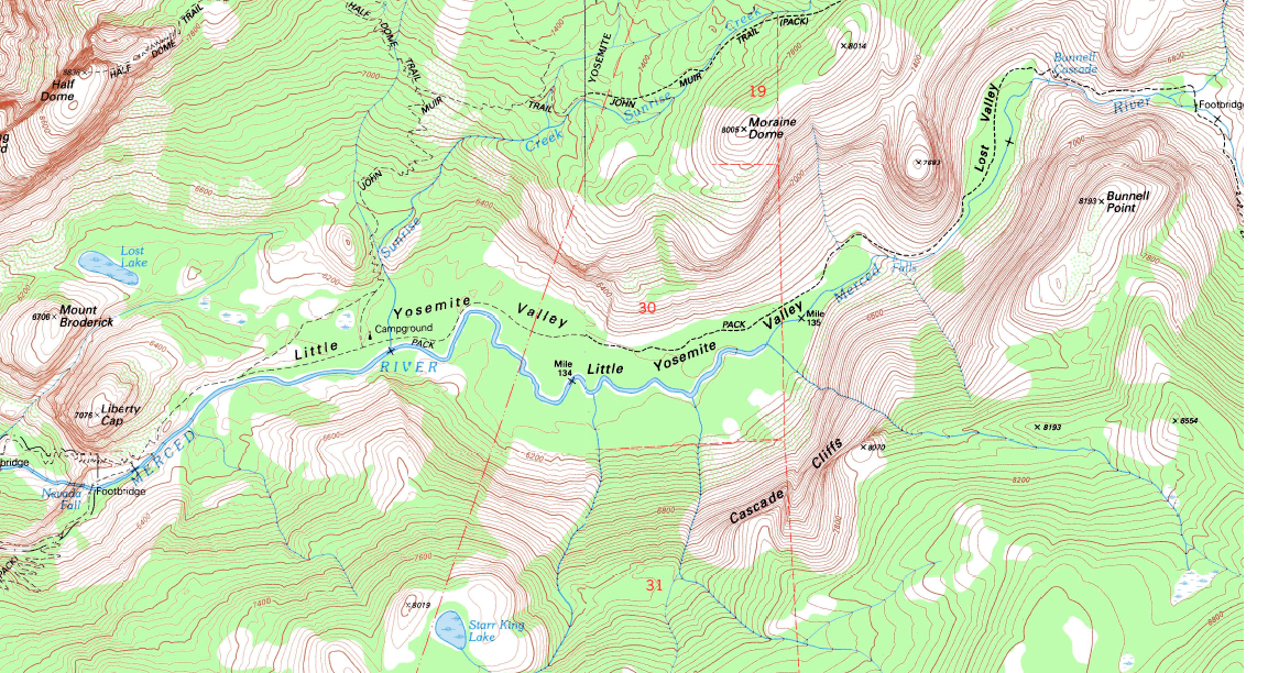 Little Yosemite Valley Topographic Map. Created from Half Dome and Merced Peak 7.5' quads.